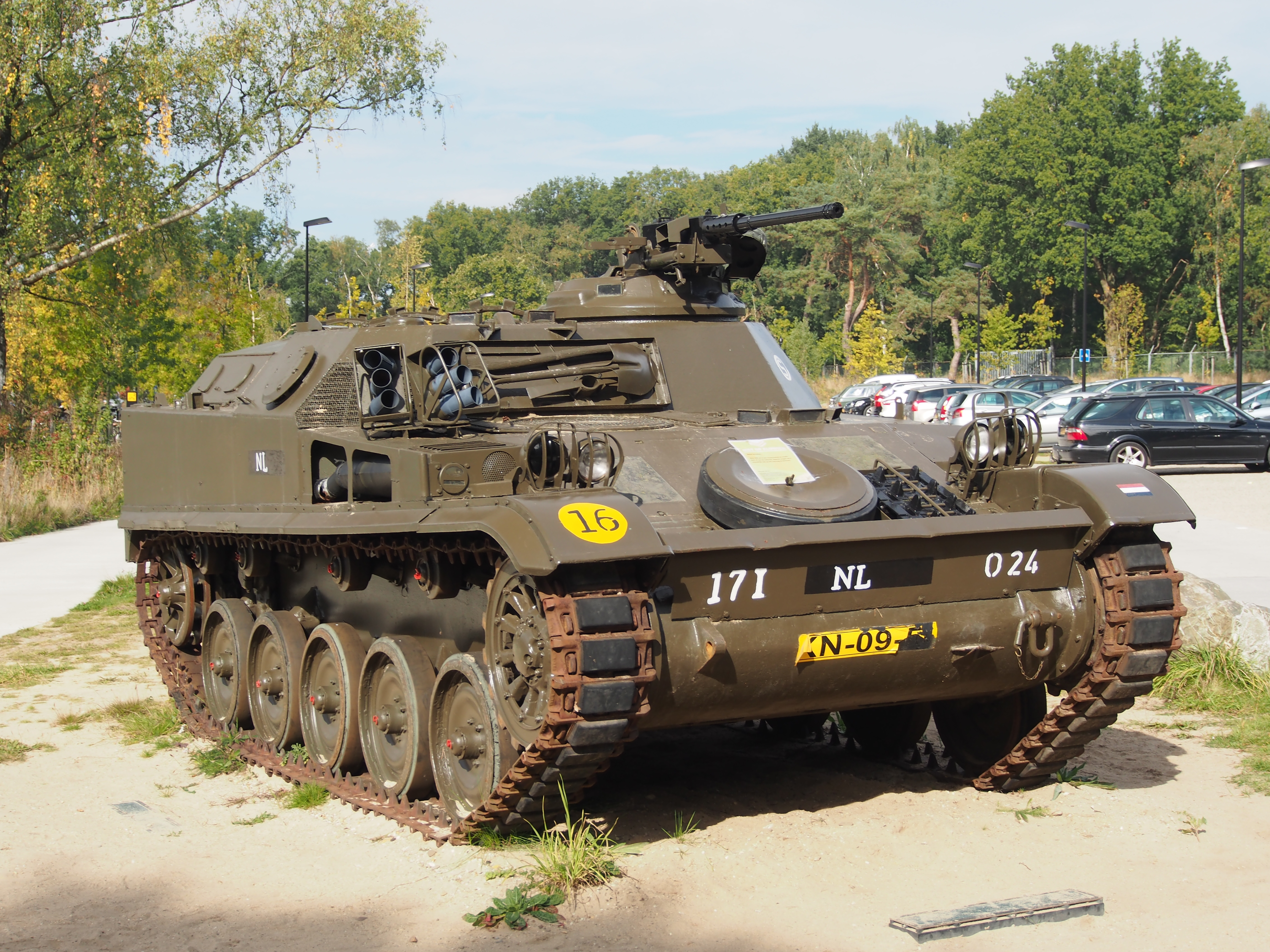 Photographed at the Nationaal Militair Museum, Soesterberg.